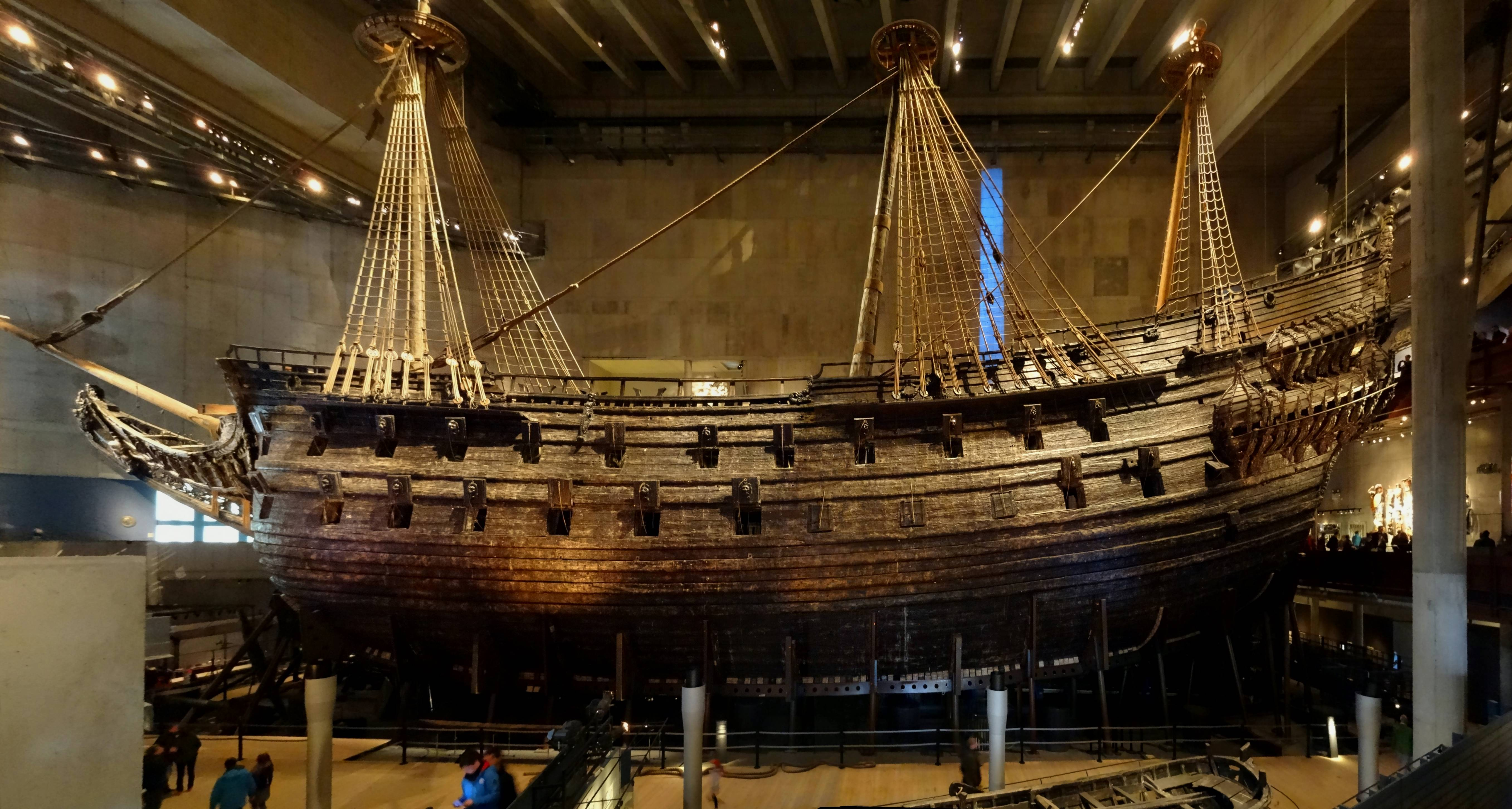 The ship Vasa from side. The mean concrete pillar of the museum hall was retouched.